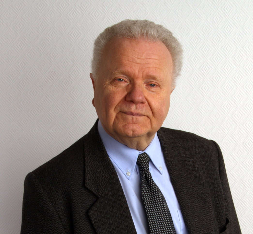 German linguist and author Christoph Gutknecht (2016)